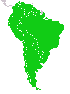 Status of the ratification of the UNASUR Constitutive Treaty.